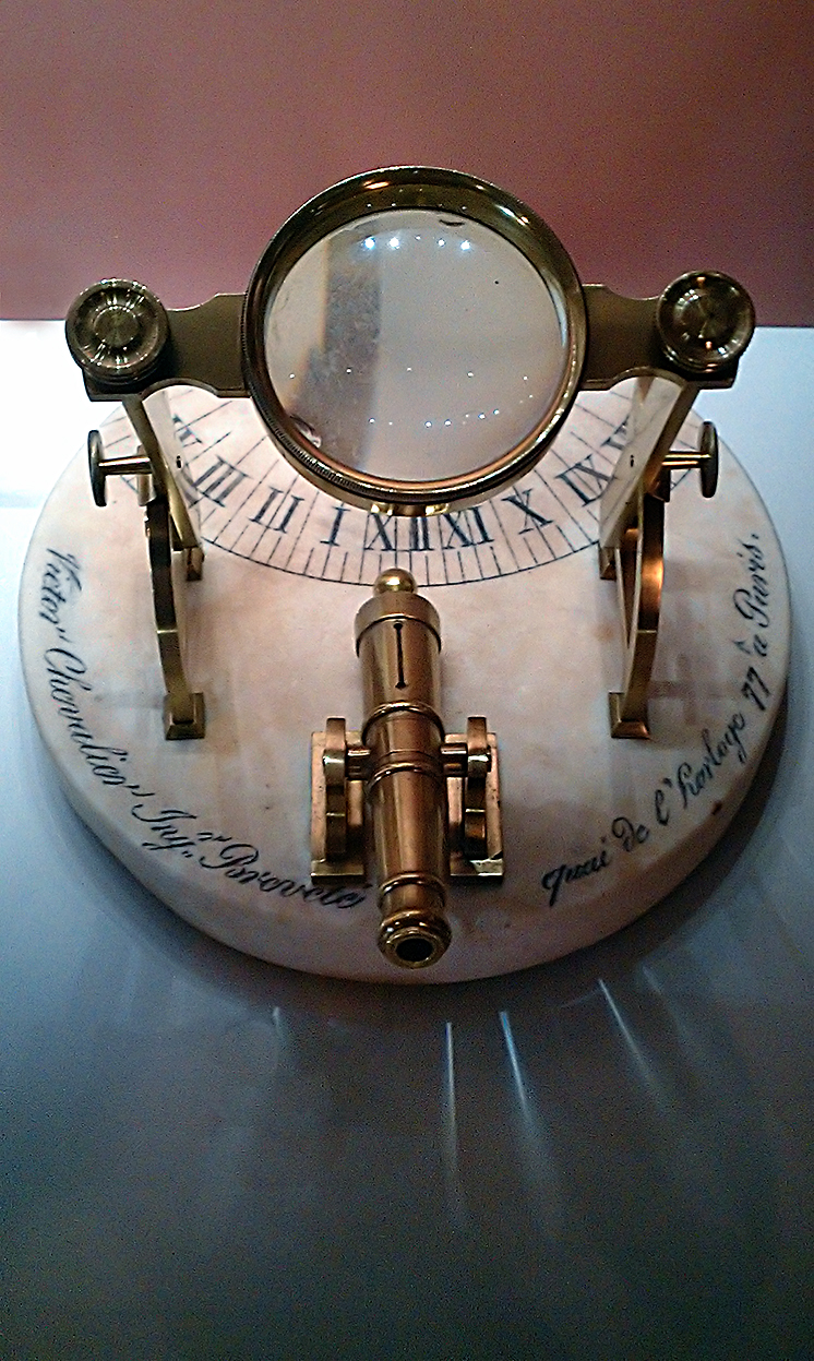 At Noon, the magnifying glass focuses the Sun's rays on to a fuse, causing the gun to fire.